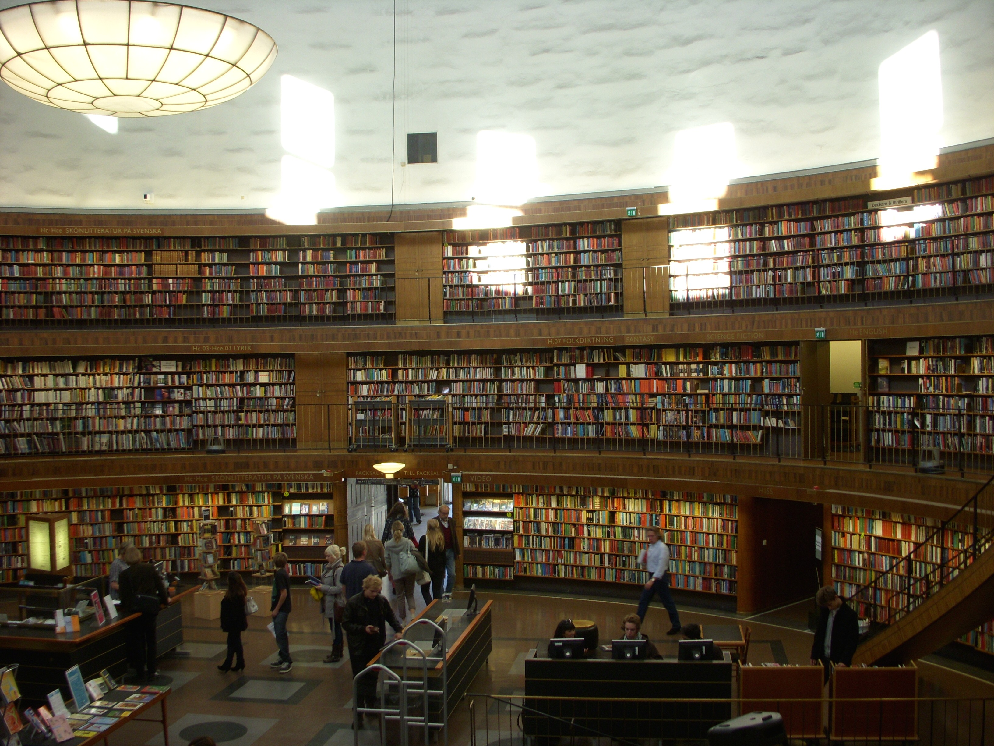 Stockholm Public Library